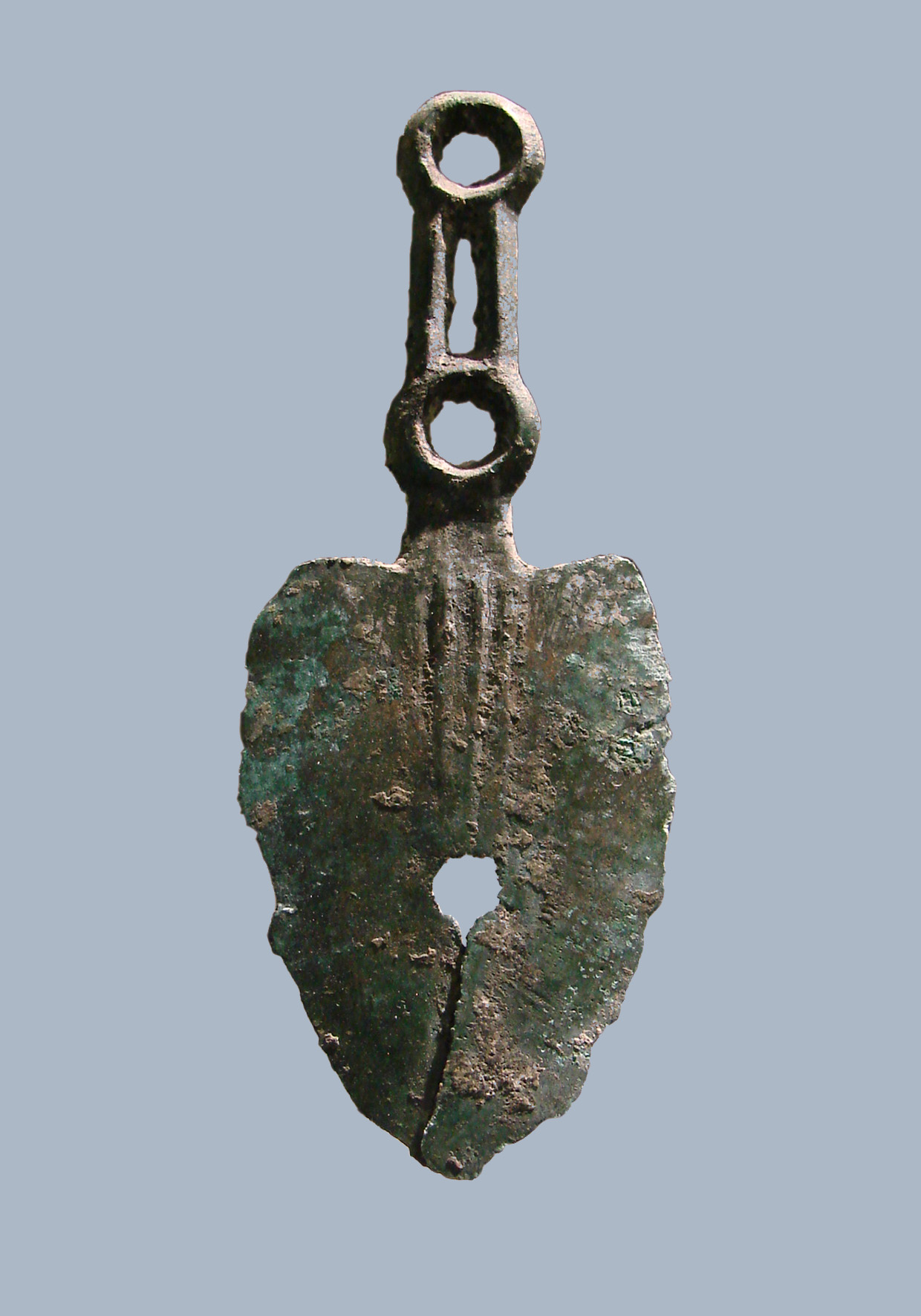 Bronze Razor from the Hallstatt culture. Musée de l'Ardenne, France. The handle is fixed and the razor has two cutting edges. Decorative ridges can also be seen following the direction of the handle into the blade. The pointed tip of the blade indicates additional uses as a knife or a weapon. The three circular holes on the handle and the blade body indicate the possibility they could be used for fasteners in a spear head as well. It is on exhibit at the Ardennes Museum in France.